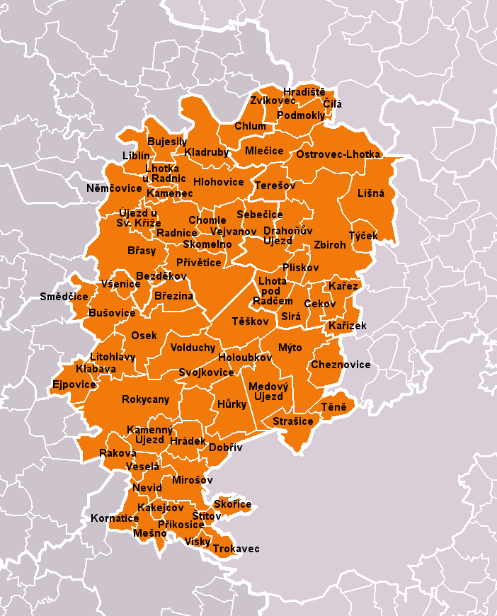 Municipalities of Rokycany District as of 2010 (68 municipalities in total). White lines of variable thickness show boundaries of municipalities, administrative areas, districts and regions. The territory is identical with administrative area of Rokycany as a Municipality with Extended Competence.